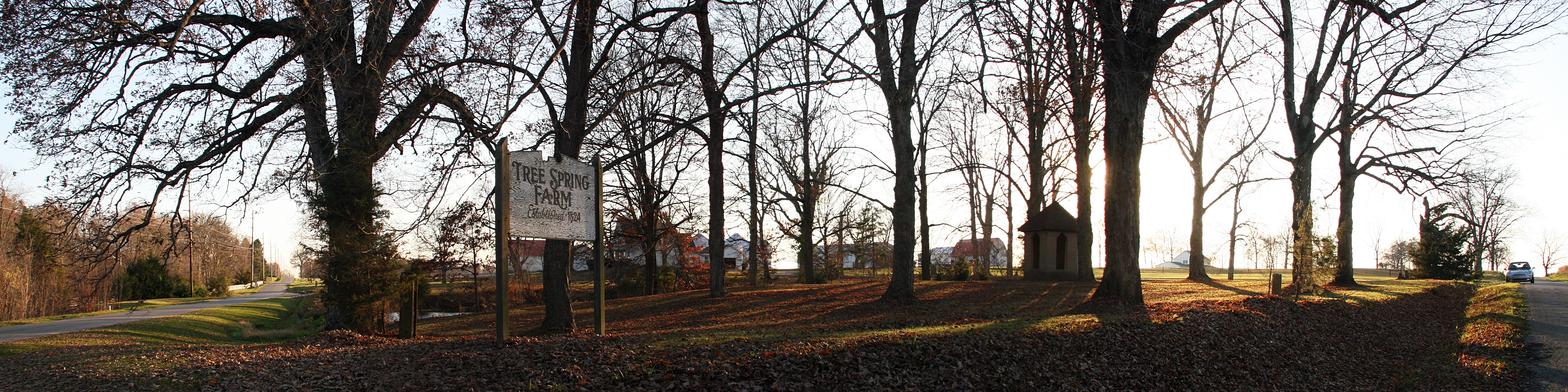 Tree Spring Farm at Tree Spring, Indiana, seen from the corner of Vermillion County roads 1450 North and 200 East. Photo looks southwest from near the intersection.